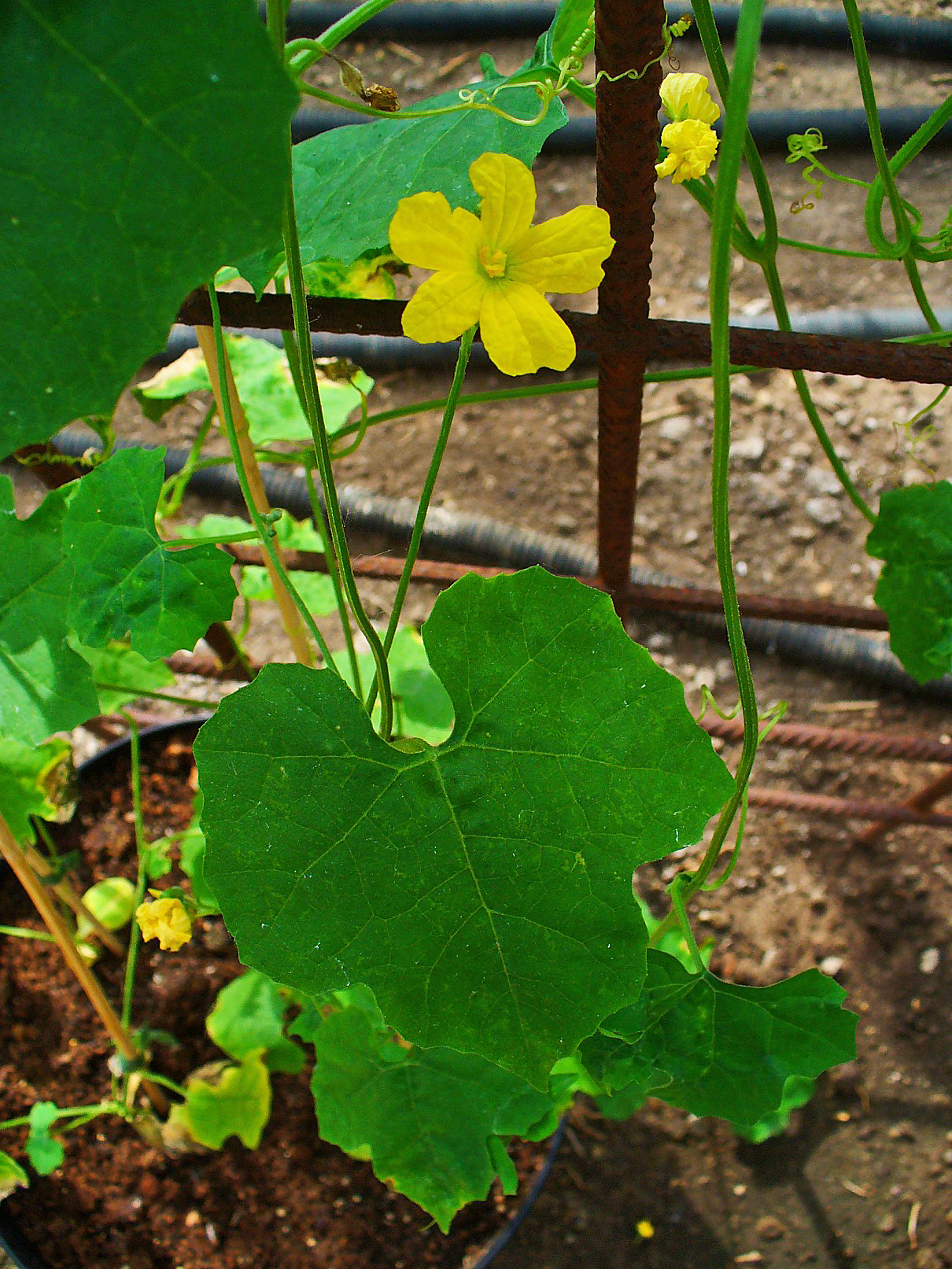 Luffa operculata, Cucurbitaceae, Esponjilla, flower and leaf.